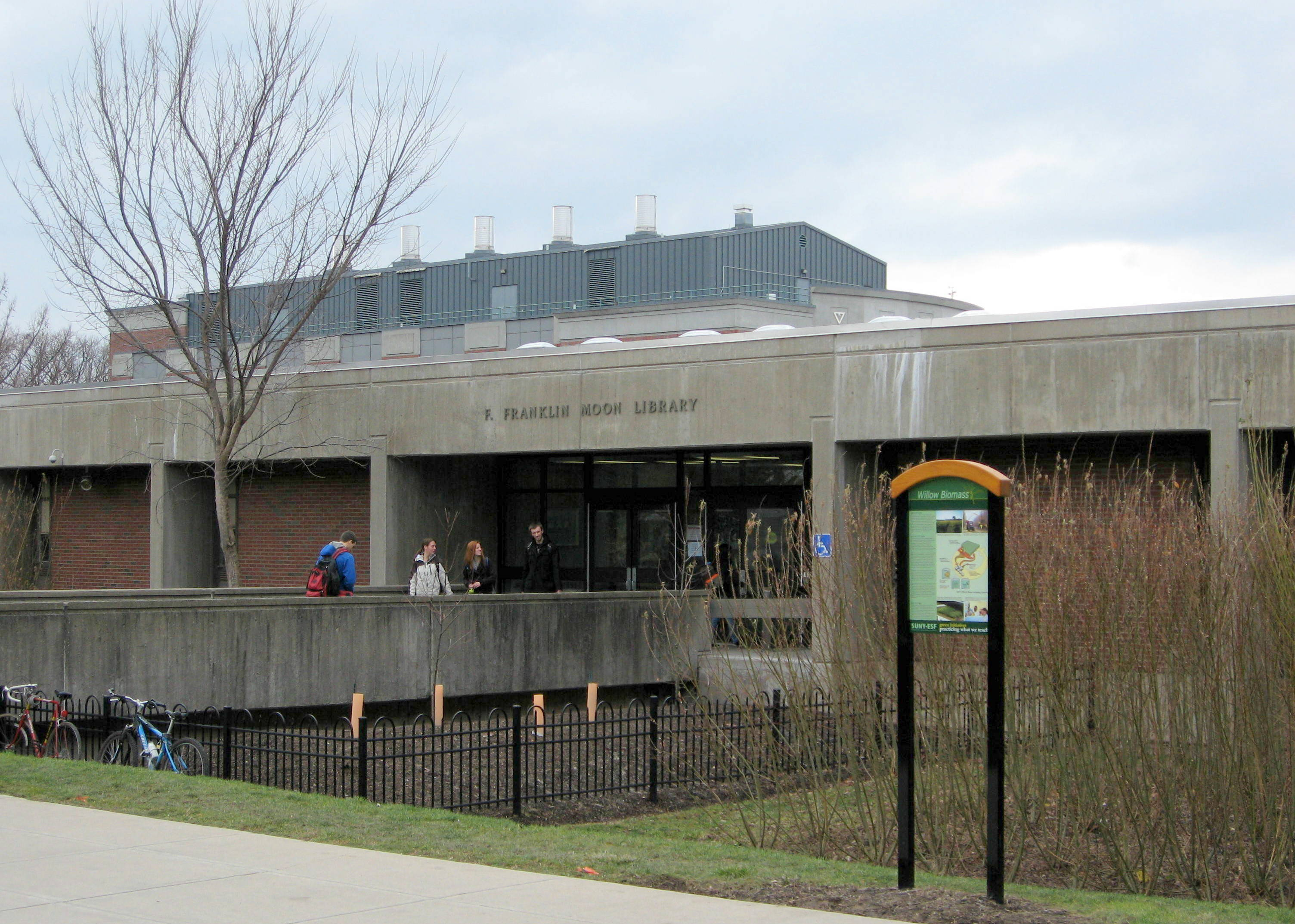 F. Franklin Moon Library, State University of New York College of Environmental Science and Forestry, Syracuse, NY. In the right foreground, a shrub willow biomass test/ demonstration plot.